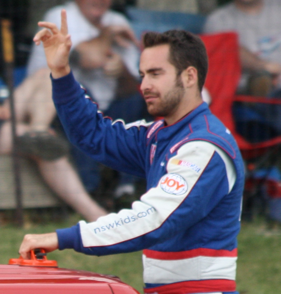 NASCAR driver Josh Richards during driver's introductions at the 2012 Sargento 200 Nationwide Series race at Road America.